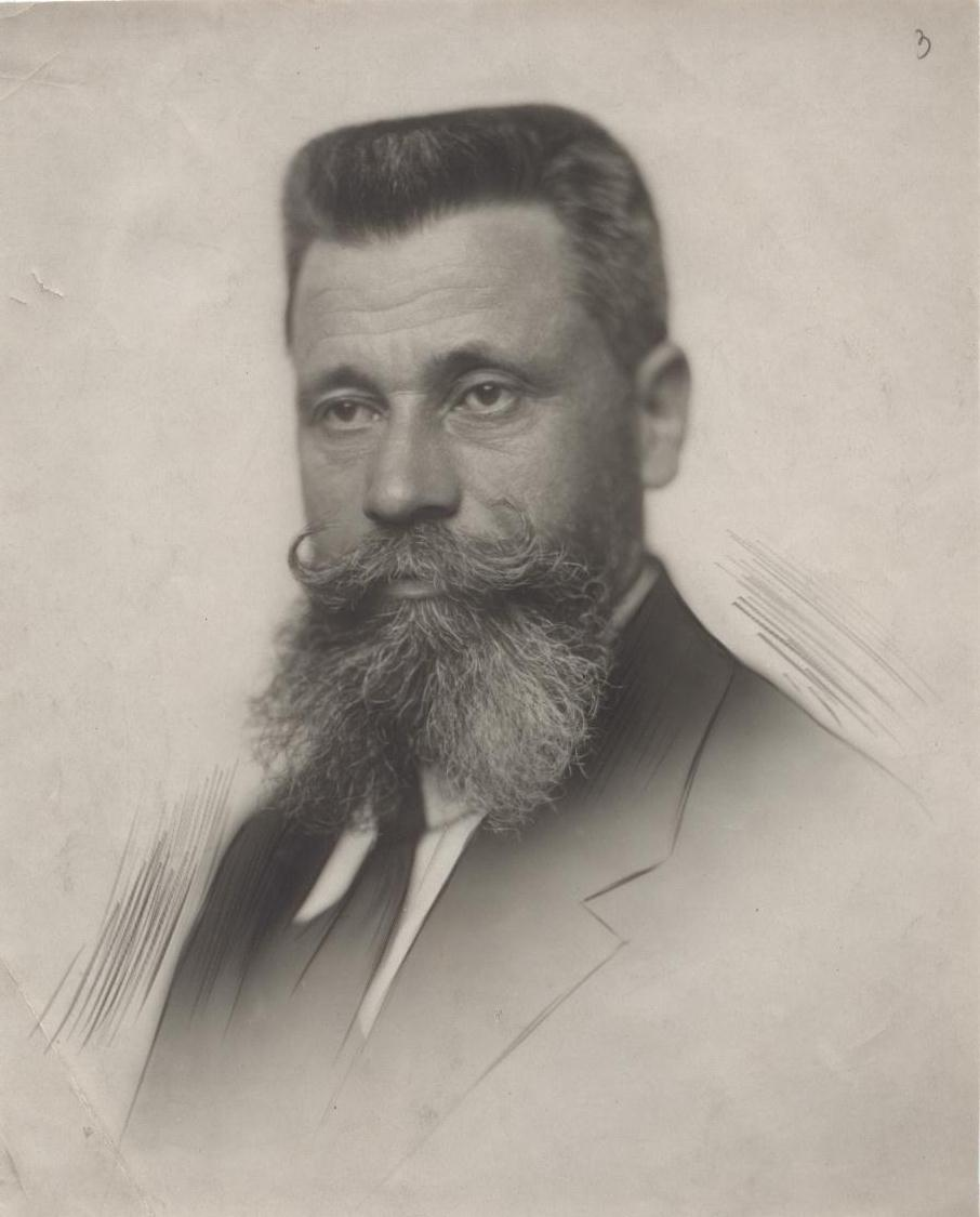 Portrait of the Bulgarian politician Alexander Dimitrov (1878-1921), Prague